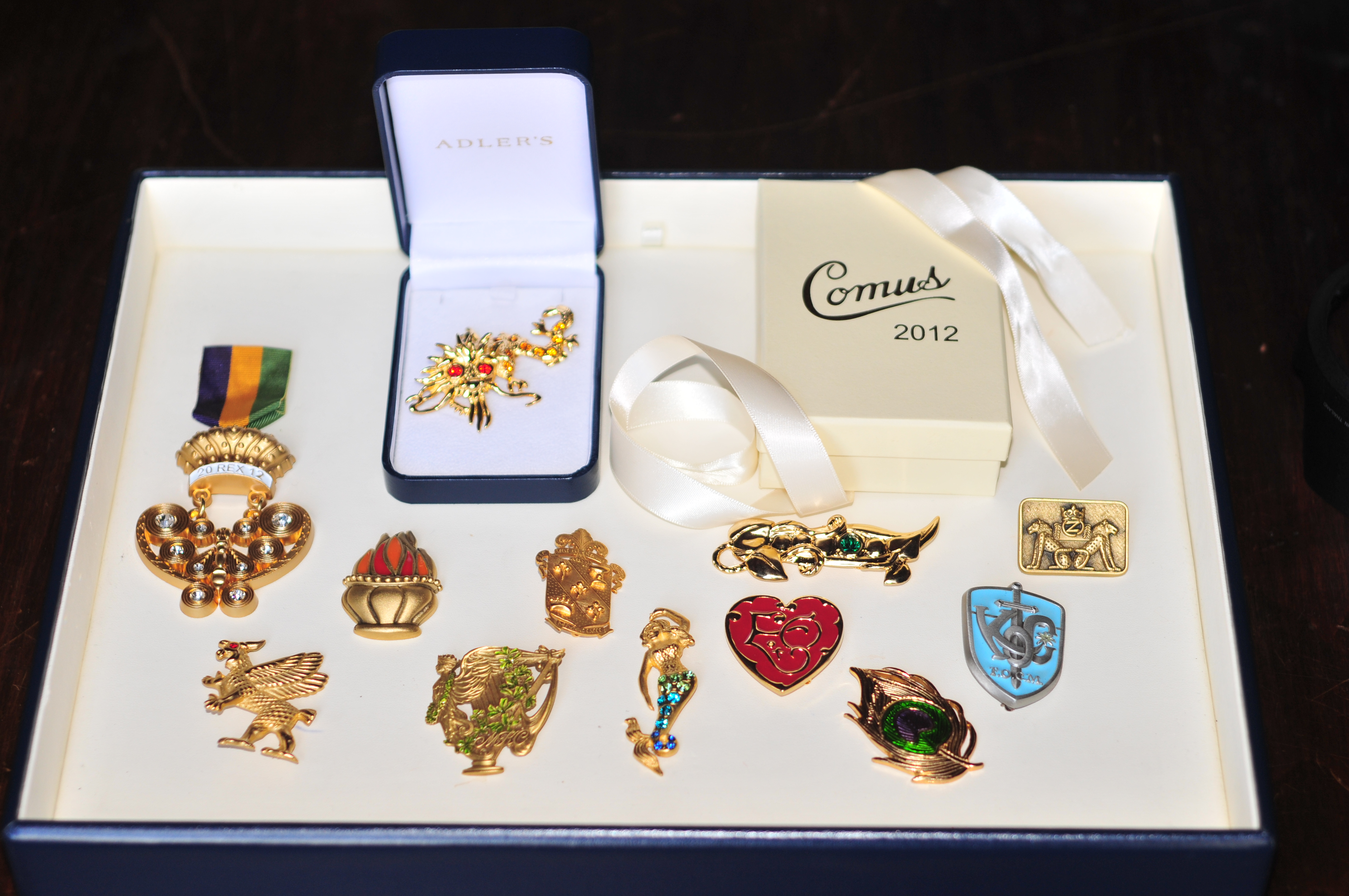 Designed and manufactured by Adler's of New Orleans